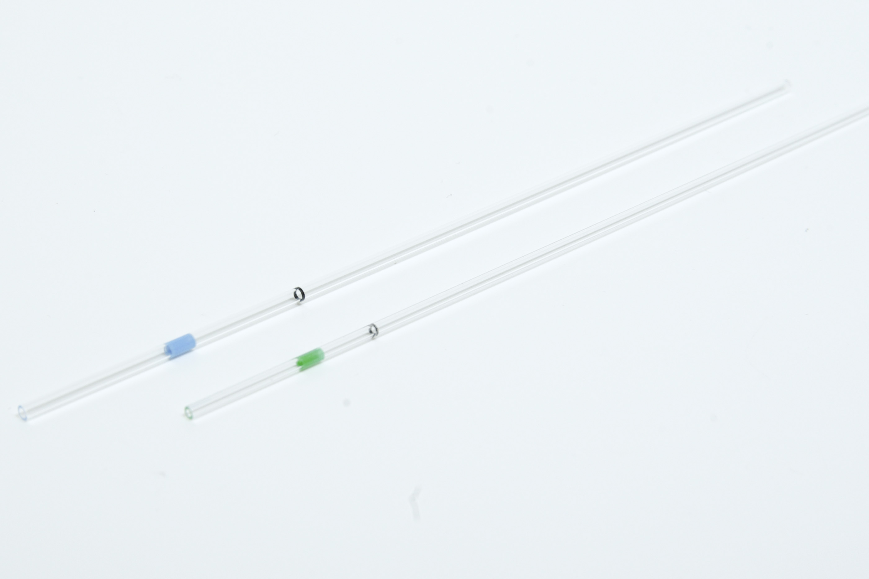 50ul &100ul glass capillaries for precise pipetting